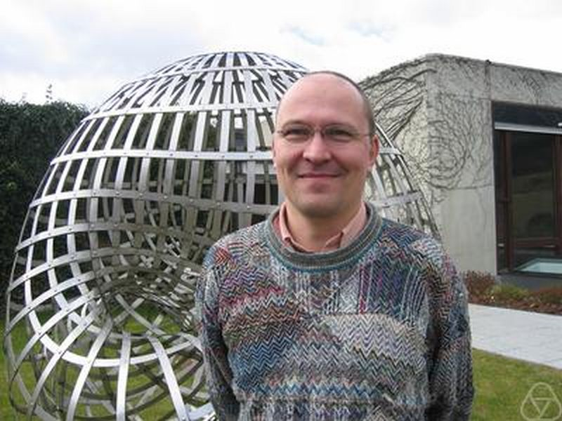 Jörg Brüdern, Oberwolfach 2008